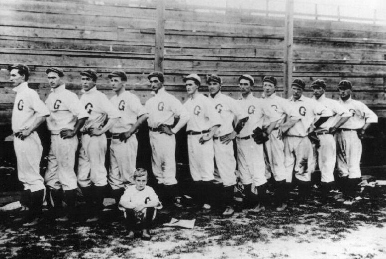 L-R Pressley, Clark, Tribble, Barr, Jackson, Scott, Stouch, McFarlin, Quigley, Brumfield, Laval, Kelly, Mascot Eskew.